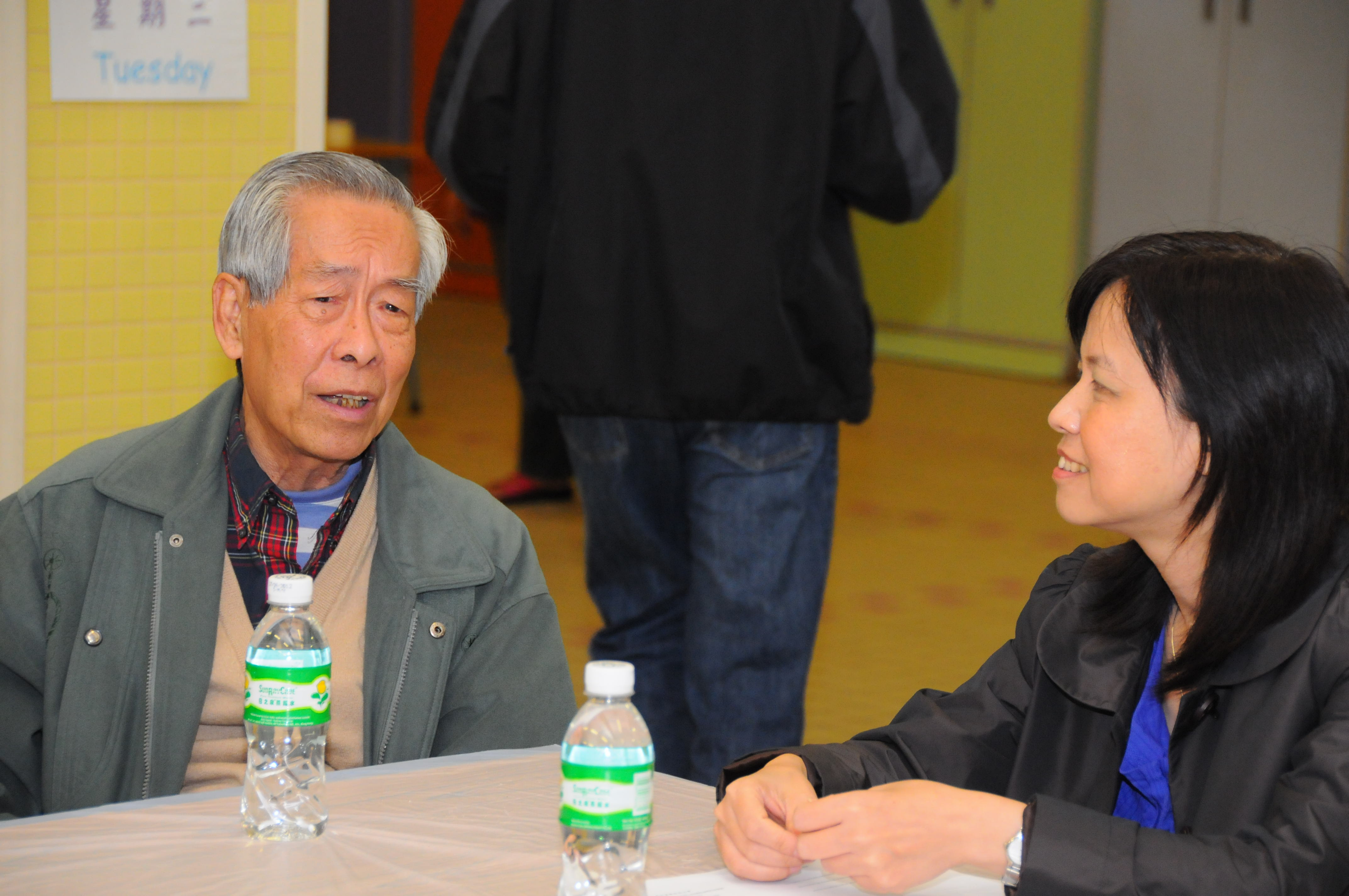 Mr Wong Shing Kit and Ms Chan Mei Hing